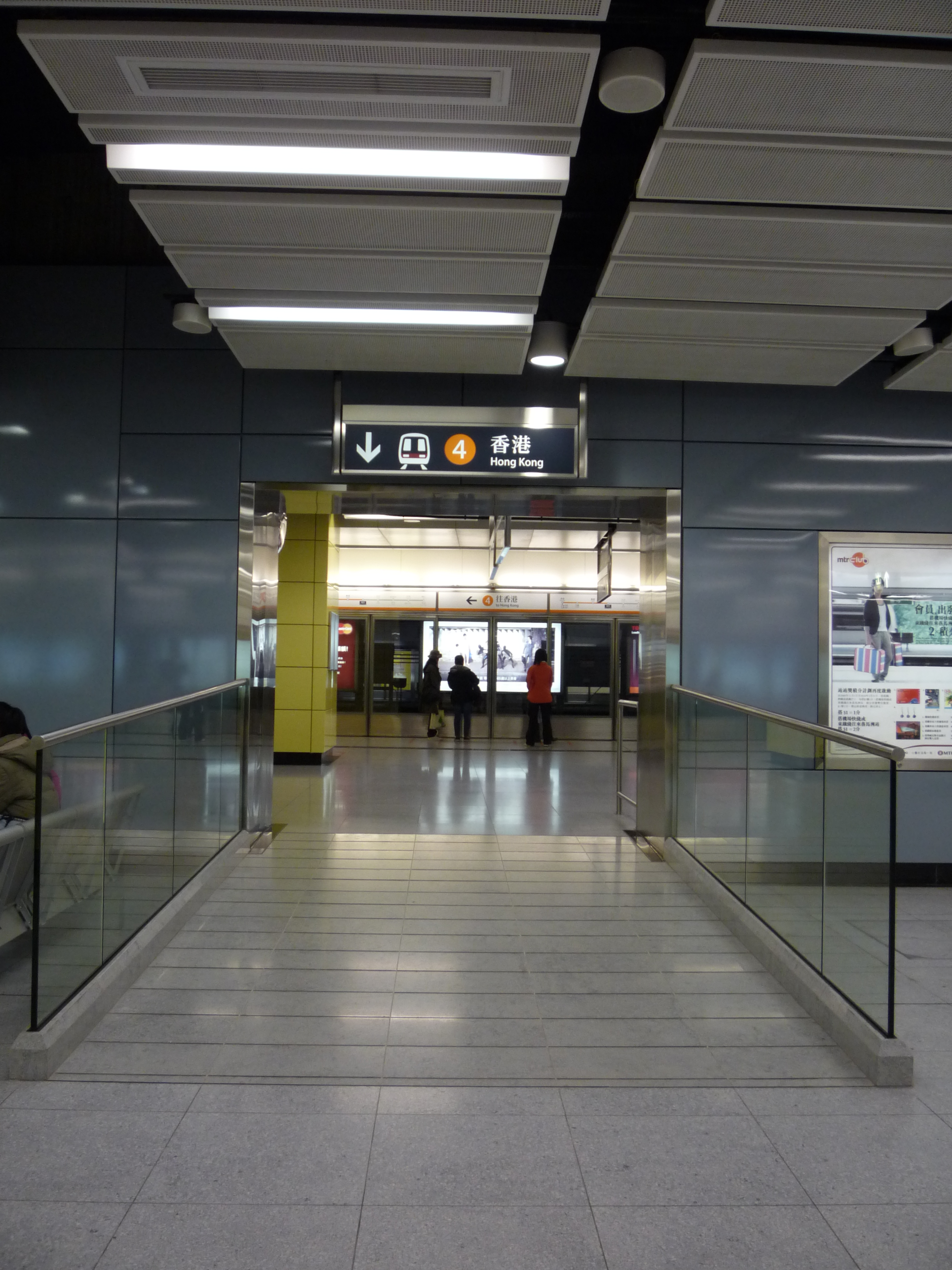 MTR Nam Cheong Station platform interchange passageway